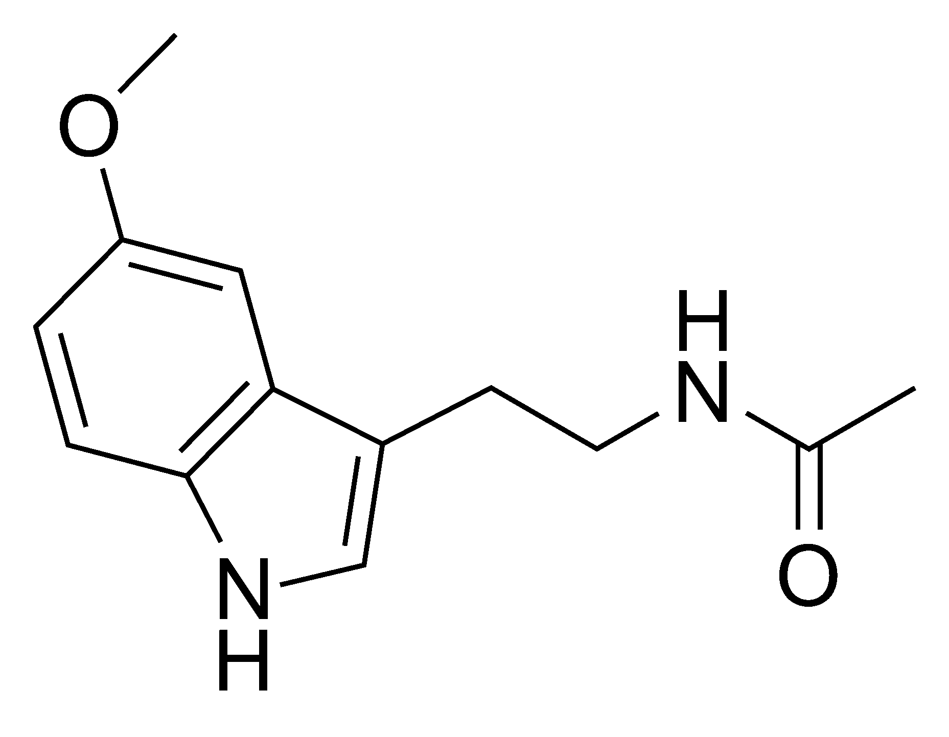 Chemical structure of melatonin